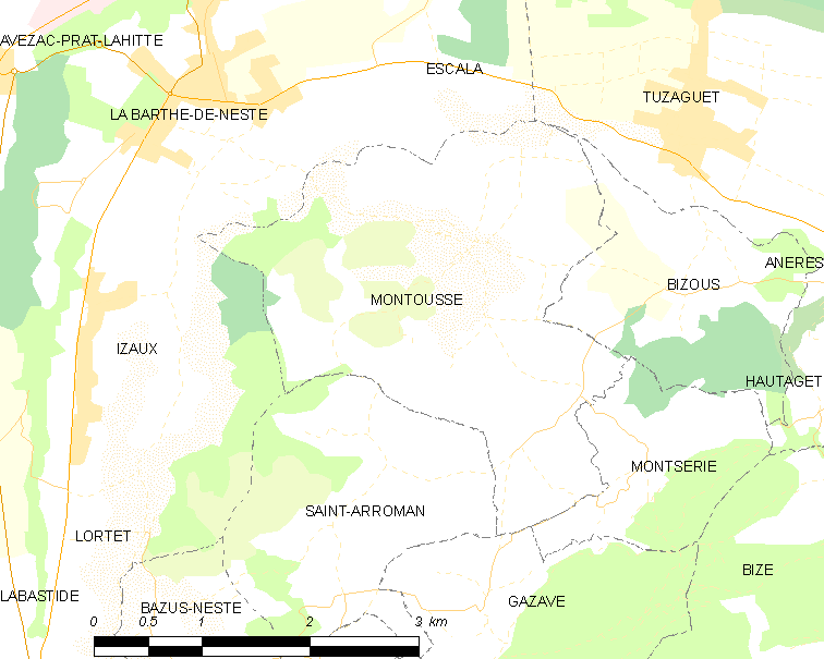 Map of French municipality